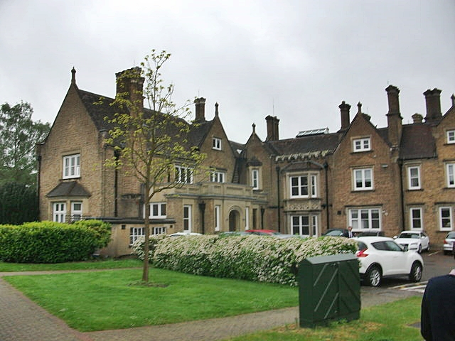 Building Research Establishment, Garston, Watford.